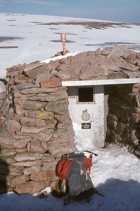 Curran Bothy, Cairngorm Plateau This small stone-built shelter was the overnight destination for two school groups on a mountaineering expedition on 19th November 1971. One group arrived in deteriorating weather, but the others could not find it in bad visibility and blowing snow. They bivouaced but after a second night out, only two survivors were found by rescue teams. The remaining five schoolchildren and an 18-year-old student teacher died. A few years later, this and some other high-level shelters were removed. On this visit in 1975, the shelter was part filled with snow which had either come through the doorway or chinks in the walls. In heavy snow years, the whole structure could be buried, with only the chimney protruding from the surface.